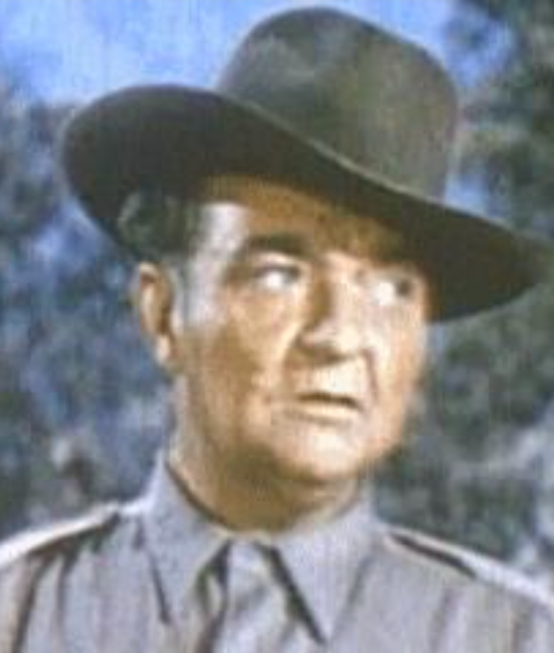 From the public domain movie Adventures of Gallant Bess (1948).